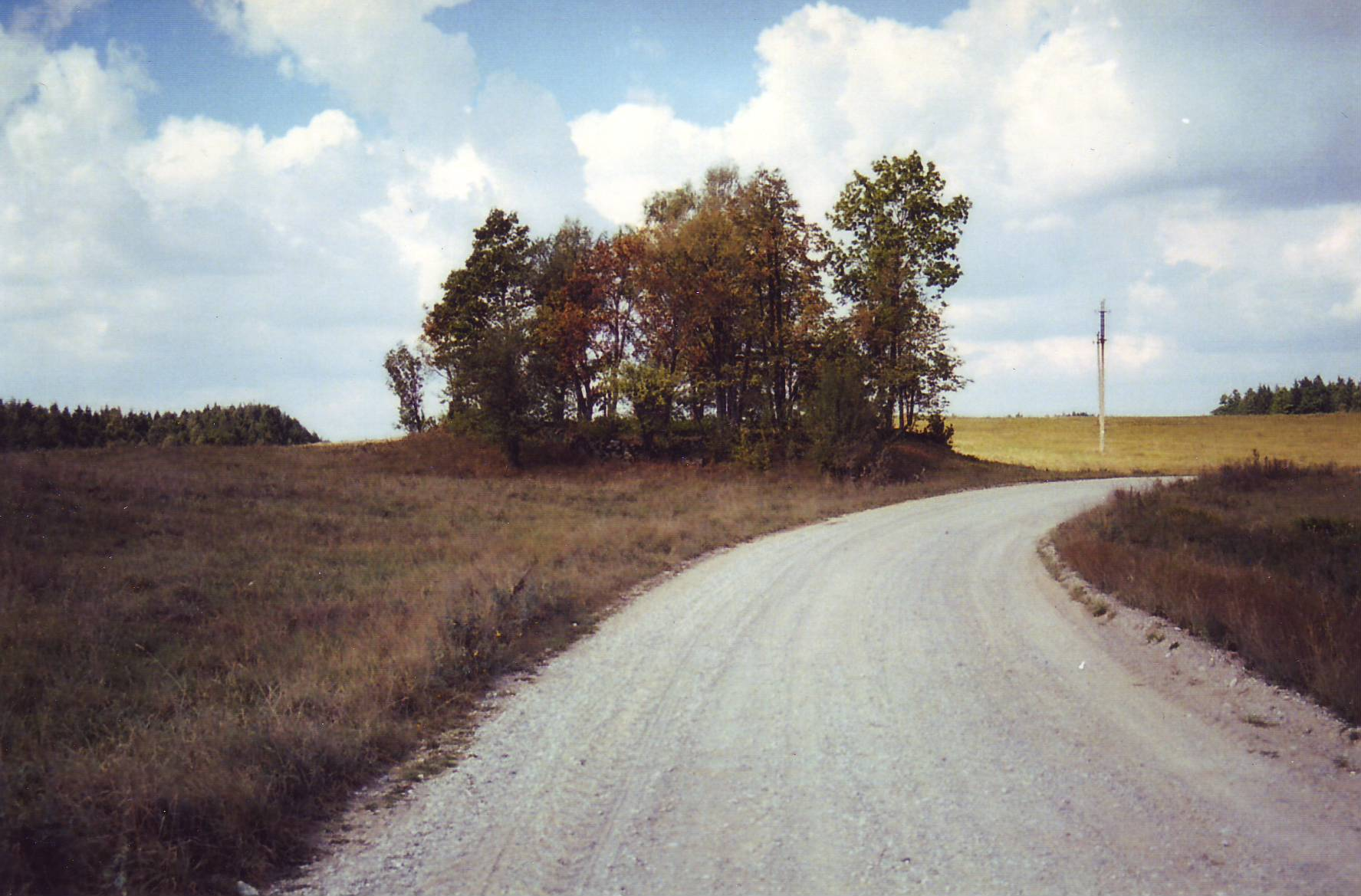 Kulaliai cemetery, Skuodas district, Lithuania